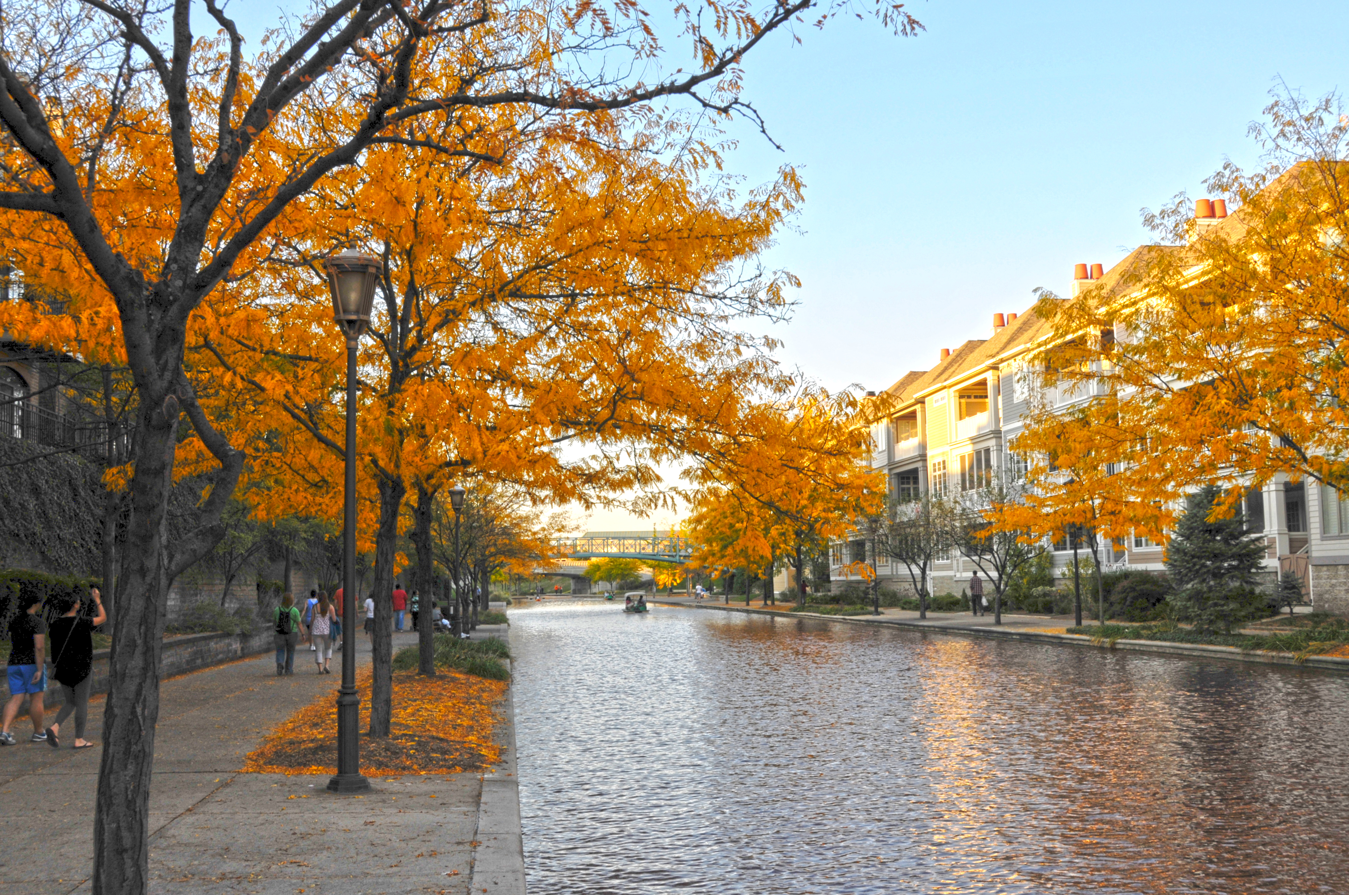 used the HDR function of Photoshop